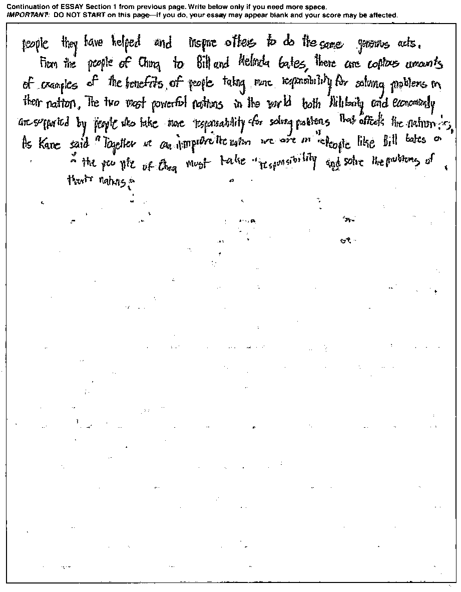 Second page of File:EssayImageAction.png